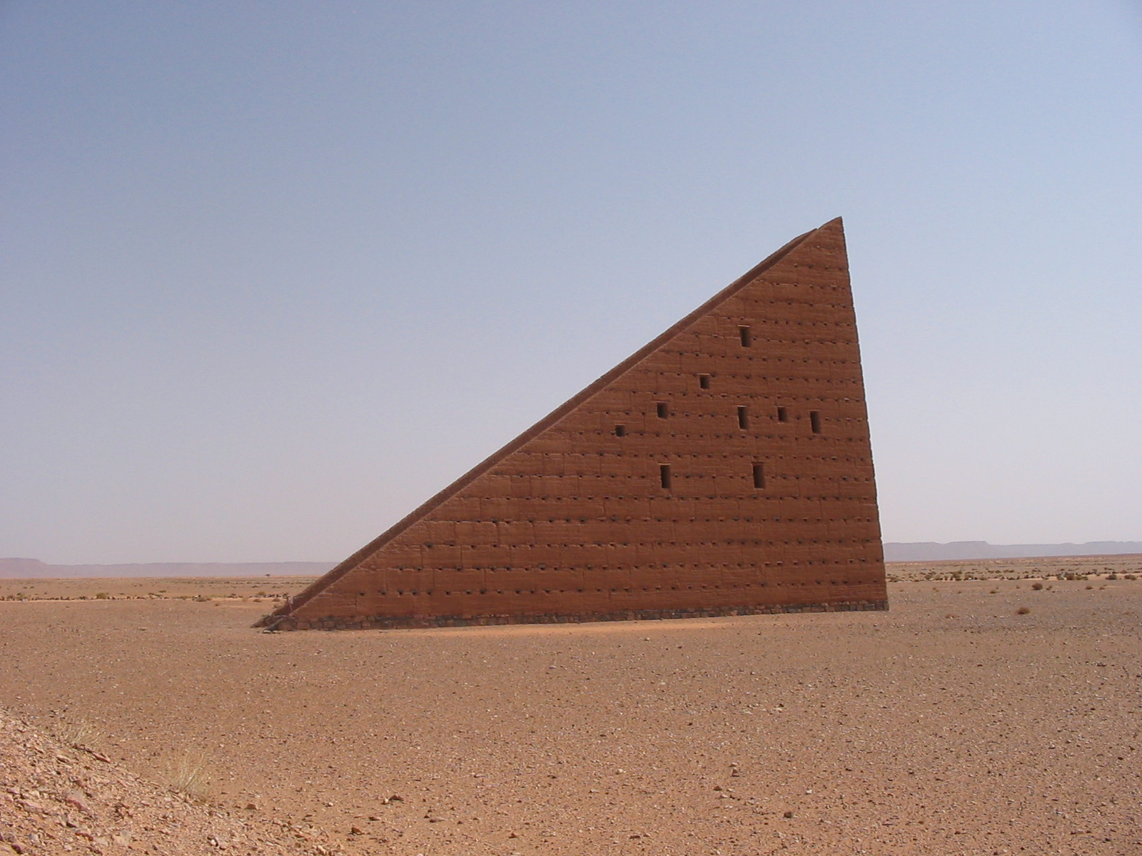 Land Art by German artist Hannsjörg Voth near Rissani, Morocco